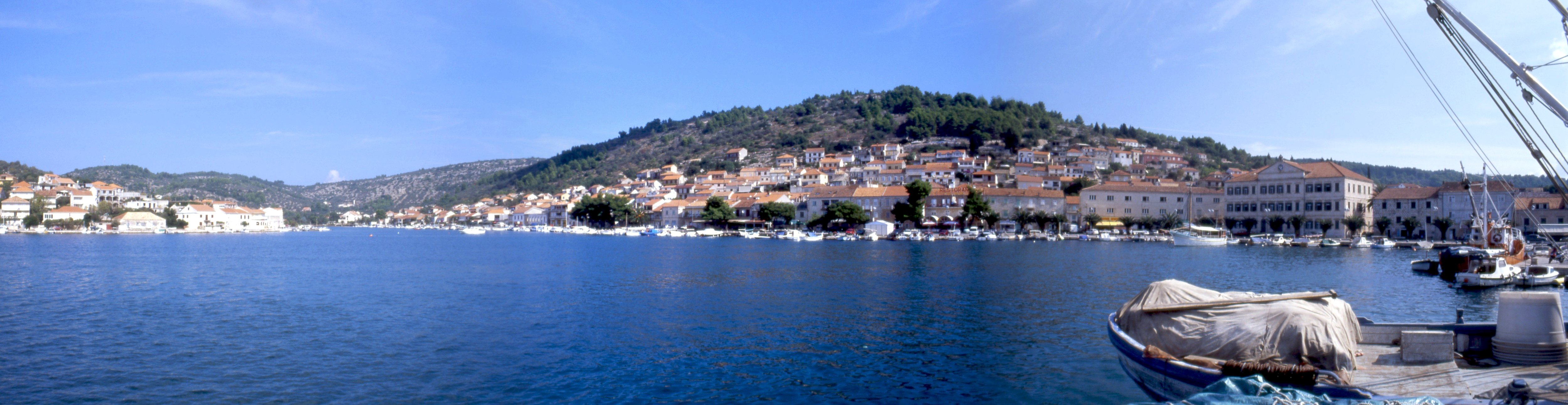 Vela Luka on the island Korčula, Croatia September 2005 by Matthias Prinke